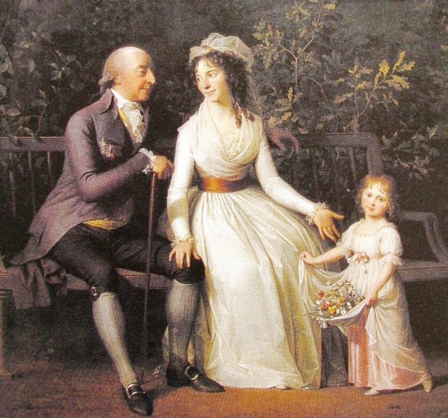 The Raben Family Portrait: Sigfred Victor Raben-Levetzau and his wife Antoinette Elisabeth, née Holstein-Ledreborg